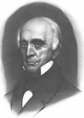 Edward Coles, Gov. of Illinois 1822-1826